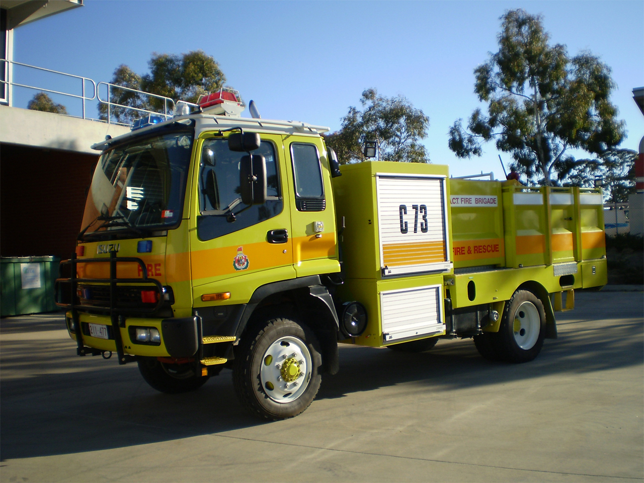 Small CAFS tanker of the ACT Fire Brigade